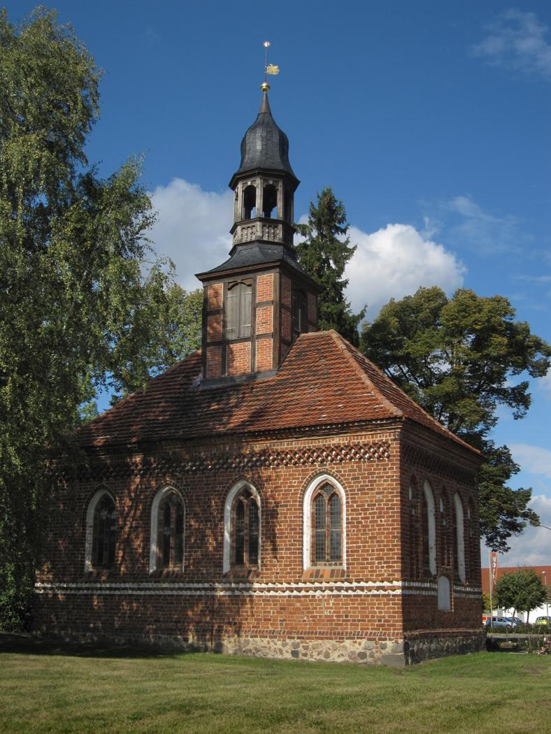 Neubrandenburg, Mecklenburg-Vorpommern (Germany), Chapel St. Georg , photo 2012